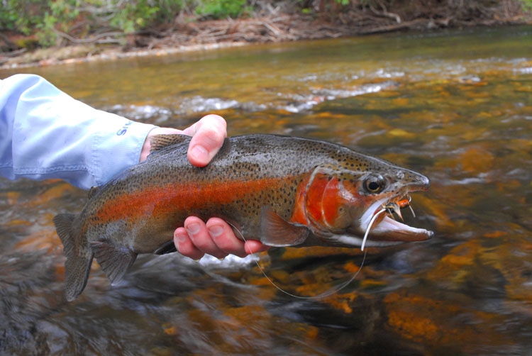 Rainbow trout, male, (Oncorhynchus mykiss), photo by Zach Matthews